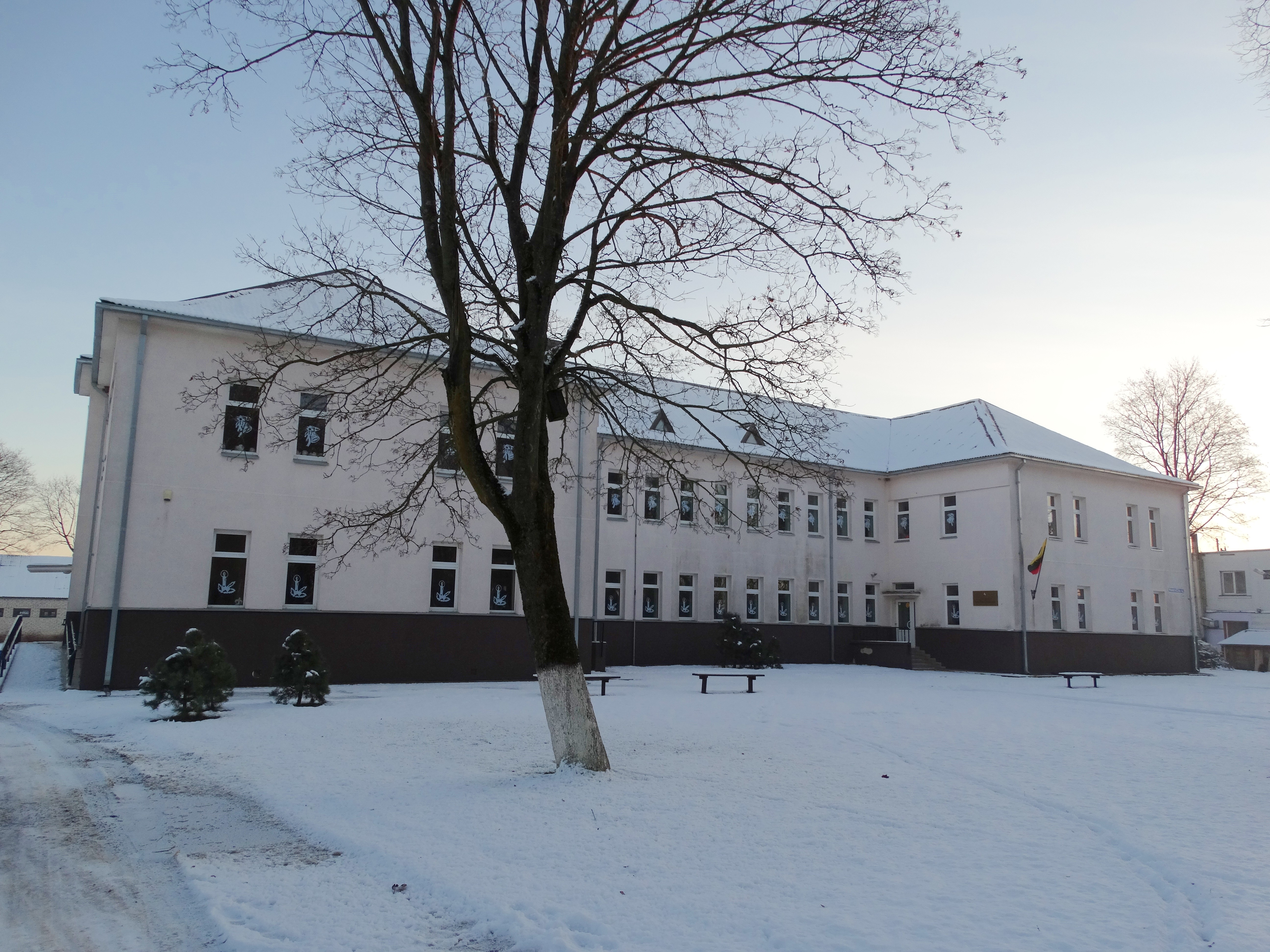 Primary school building, gymnasium, Šeduva, Radviliškis District, Lithuania